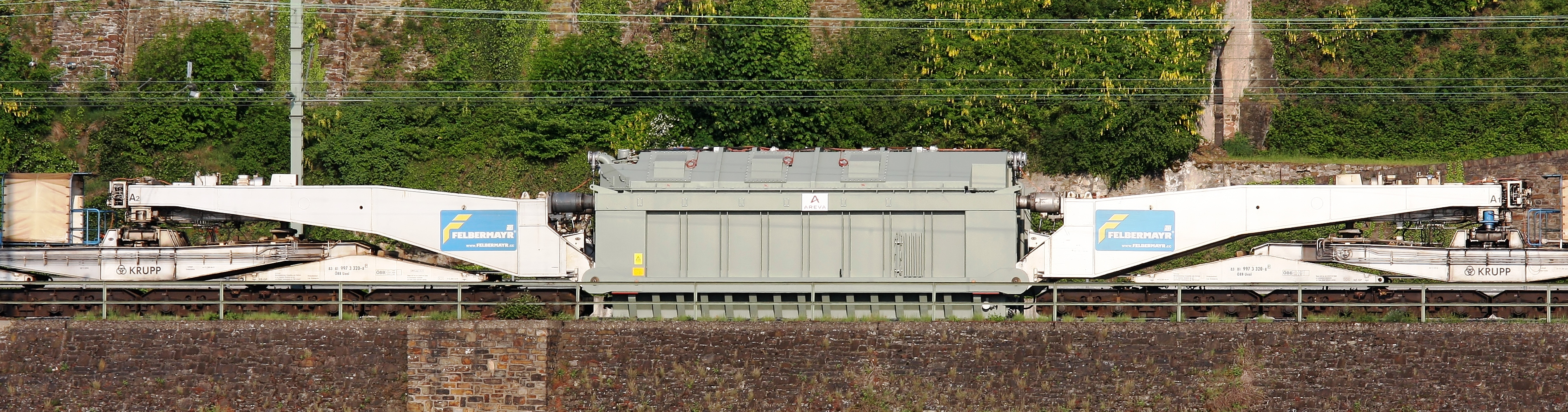 Schnabel car (owner: Felbermayr Transport- und Hebetechnik GmbH & Co KG, Österreich) with transformer in Koblenz-Ehrenbreitstein station, Germany